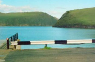 Small Sea Strait between Siberia and Olkhon island. Small Sea Strait as seen from Olkhon.